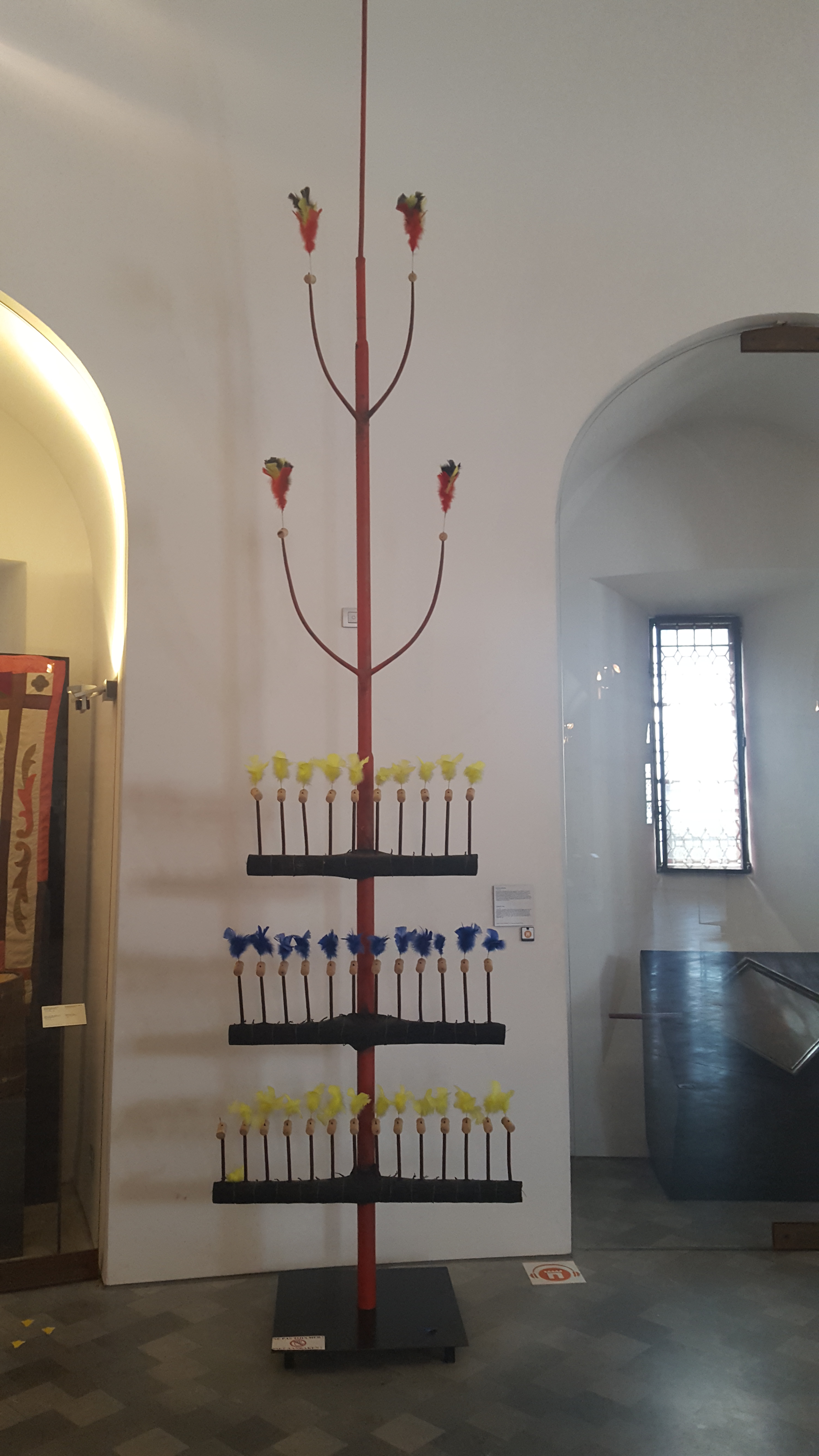 Popinjay, in the Halle Gate museum, during Wiki Loves Art, Brussels, Belgium